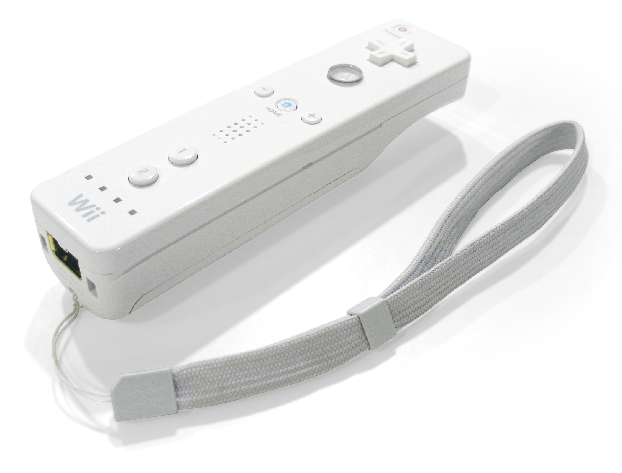 An image of the Wii remote (with wrist strap) taken by myself with a Canon A610 camera and given minor edits in Adobe Photoshop.